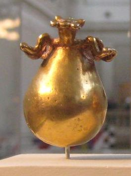 Crotal bell, gold, Panama, 6th-10th century; Metropolitan Museum of Art, New York